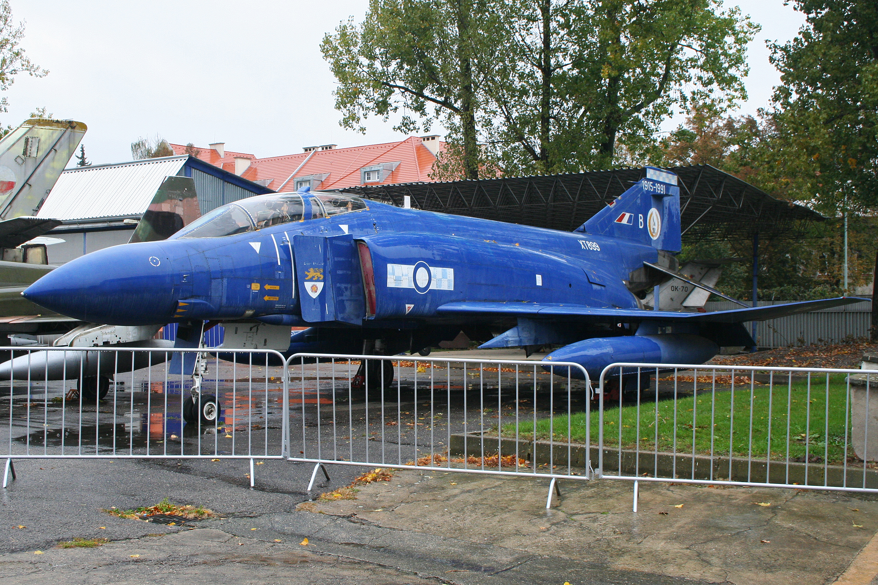 In special markings for the types last year in RAF Germany service. Both 19sqn and 92sqn had an aircraft in this scheme. This is the 19sqn machine. msn 2507. On outside display at the Kbely Museum, Czech Republic. 07-10-2012